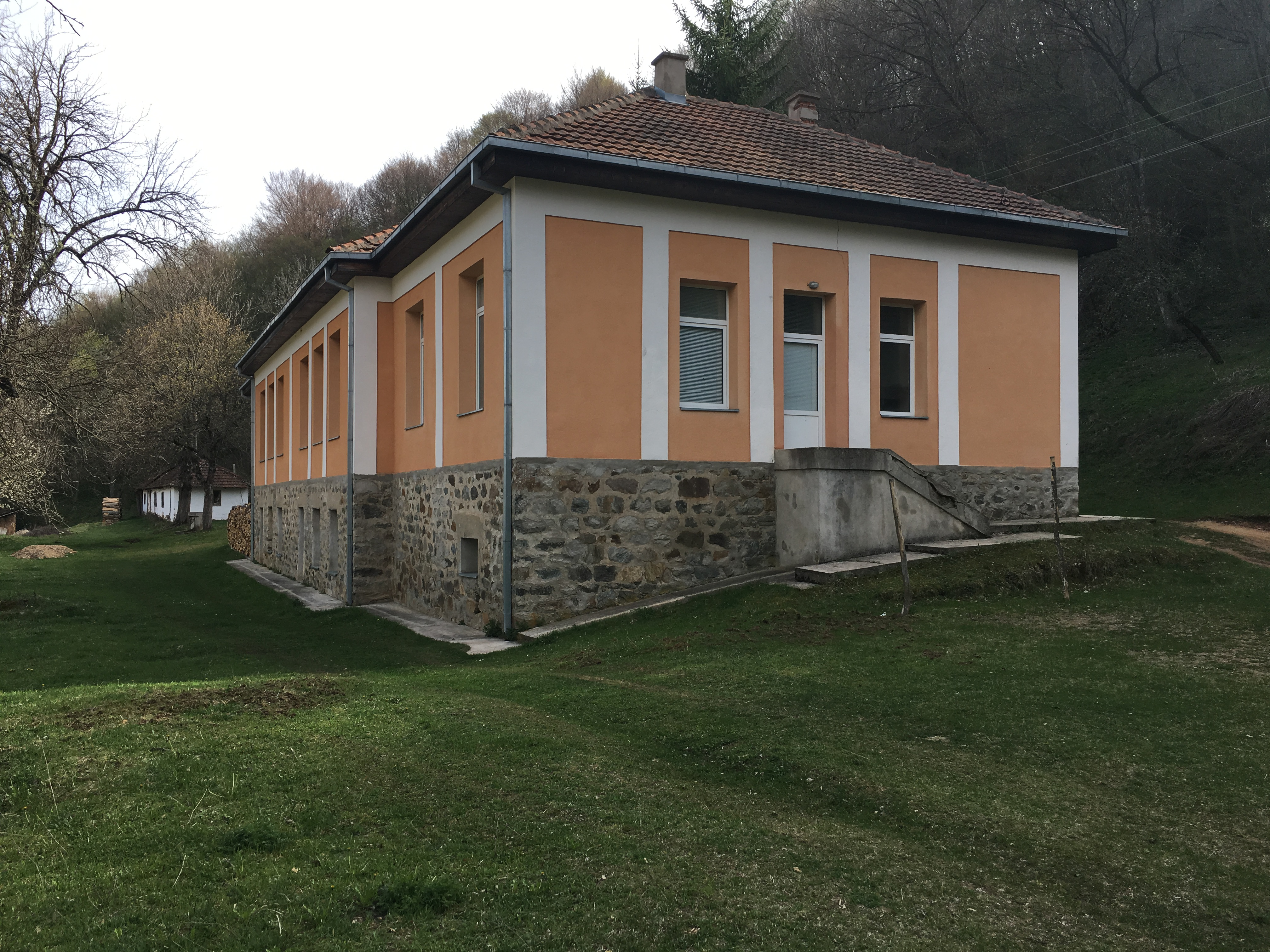 The primary school of the village of Podrži Konj